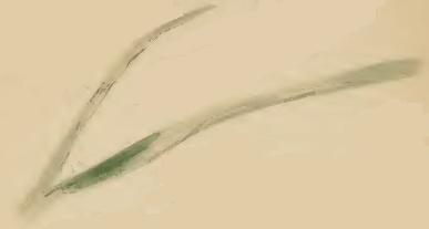 Stainton’s Natural History of the Tineina (1855–1873): Elachista gangabella two mined leaves of Dactylis glomerata